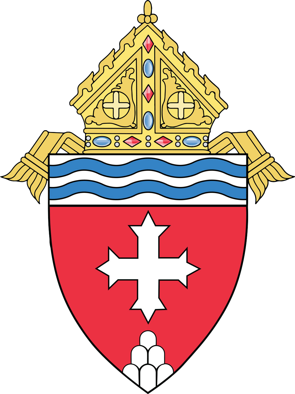 The coat of arms of the Diocese of Memphis has a red field with six small hills in silver (white) at the bottom, from the arms of Pope Paul VI, who established the diocese. At the top of the shield, two wavy blue bands on a “chief” of silver represent the Mississippi and Tennessee rivers, the western and eastern (respectively) geographical borders of the diocese. A silver cross of the style used by Christians in the land of the Diocese’s namesake city of Memphis in Egypt, links brothers and sisters in the faith of both regions to each other, and to the Church worldwide in the time of the new evangelization.